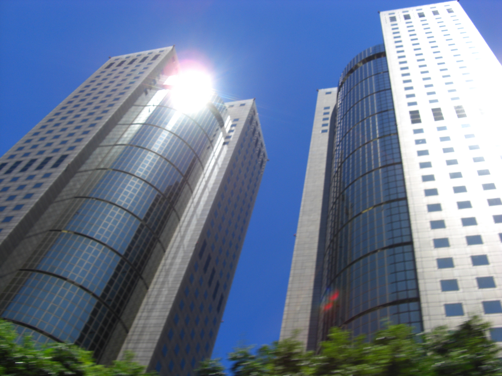 Far Eastern Plaza seen from Dunhua South Road.